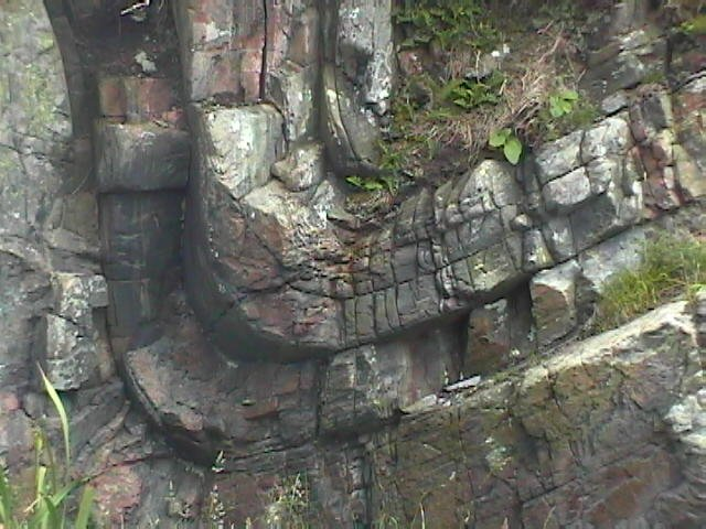 Fold in Moine schist (of the Moine supergroup) of Precambrian (Neoproterozoic) age, at the Crudha Ard, near Arnisdale, Scotland.